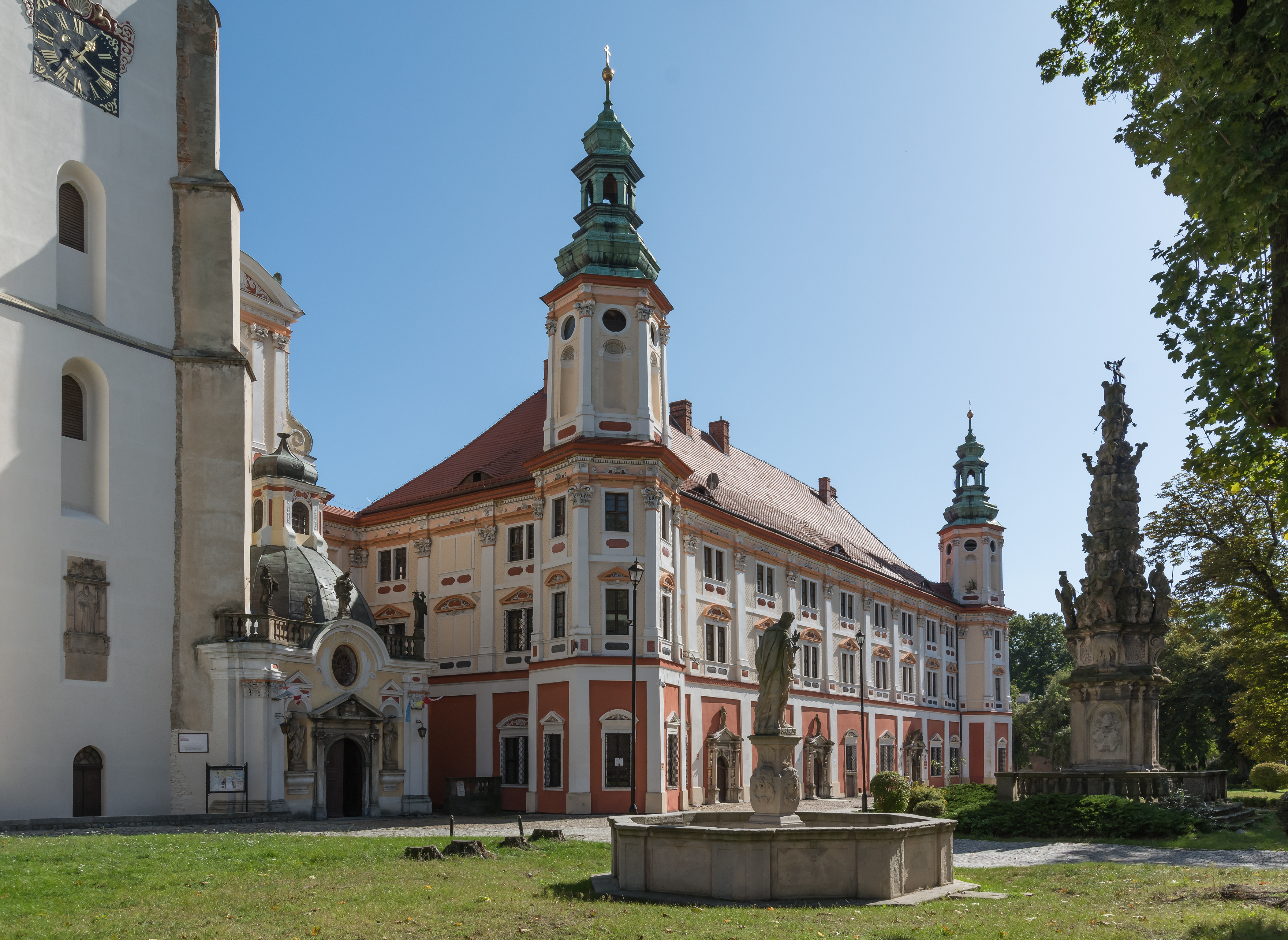 Monastery in Henryków